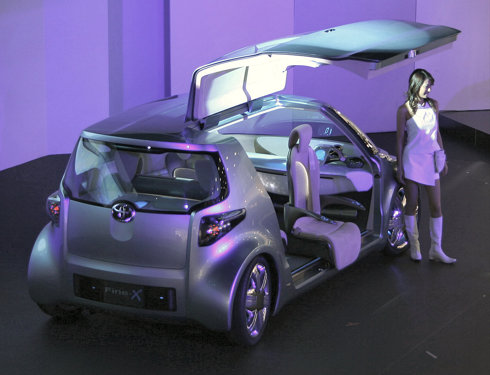 Toyota Fine-X at the 2005 Tokyo Motor Show